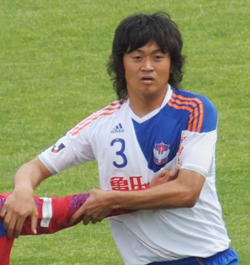 Kazuhiko Chiba - Albirex Niigata cropped from DSC_4330